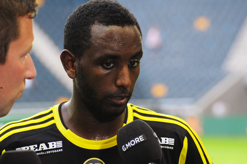 Henok Goitom, forward of AIK, after a game against BK Häcken in 2013